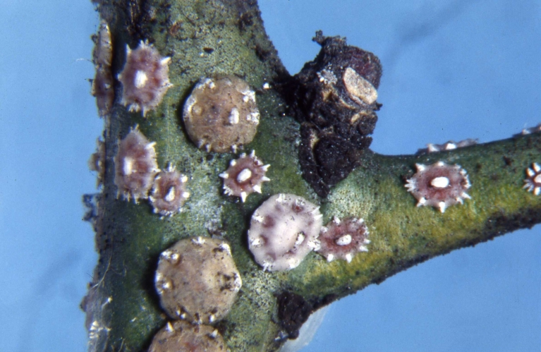 Japanese wax scale (Ceroplastes japonicus)